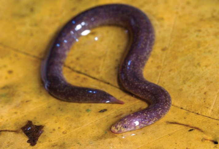 Examples of amphibians recorded in the Serra da Mocidade mountain range.